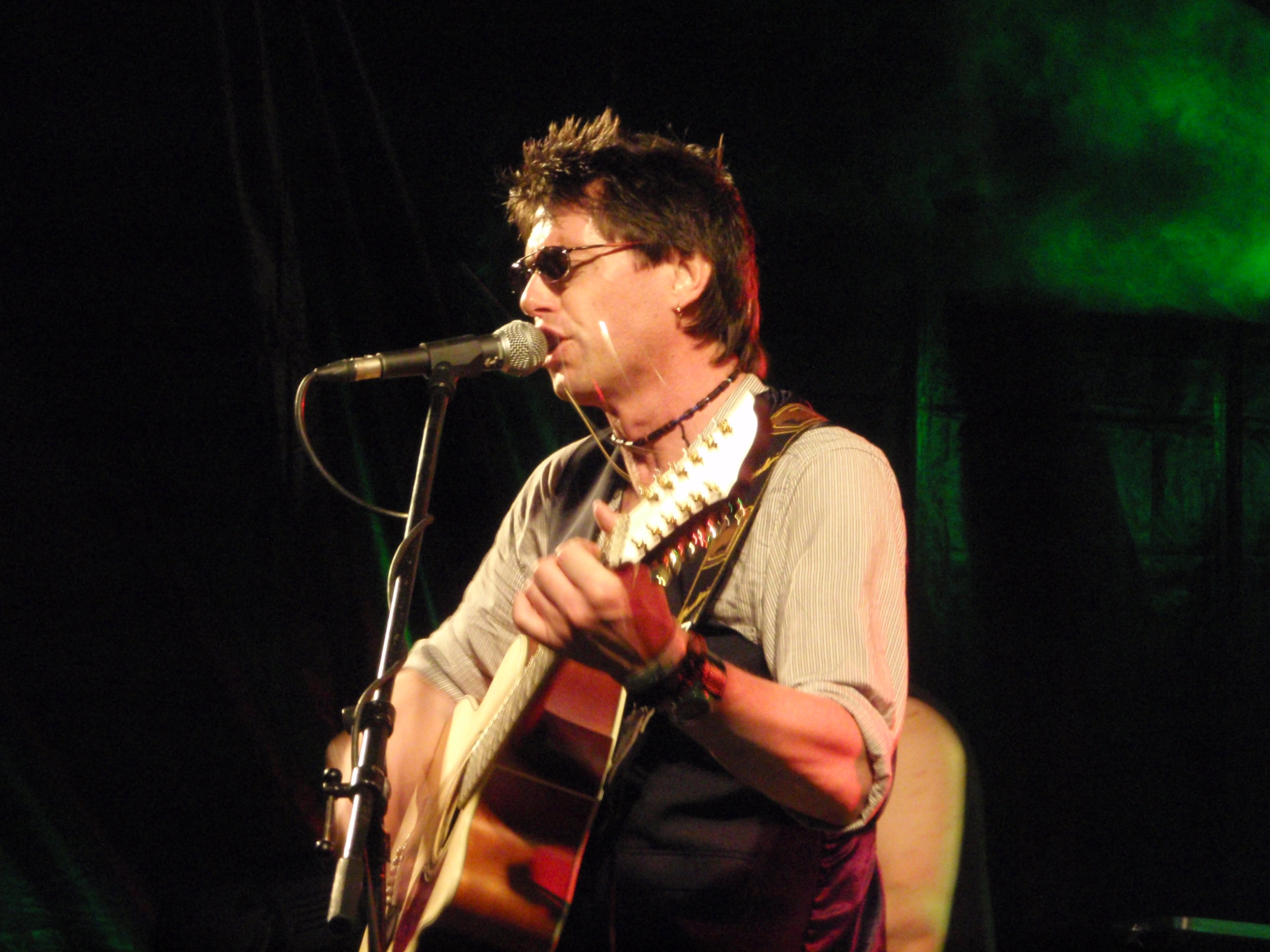 "Bleeding Hearts" (GB) at the "Folk im Schlosshof" festival 2009 in Bonfeld / Germany